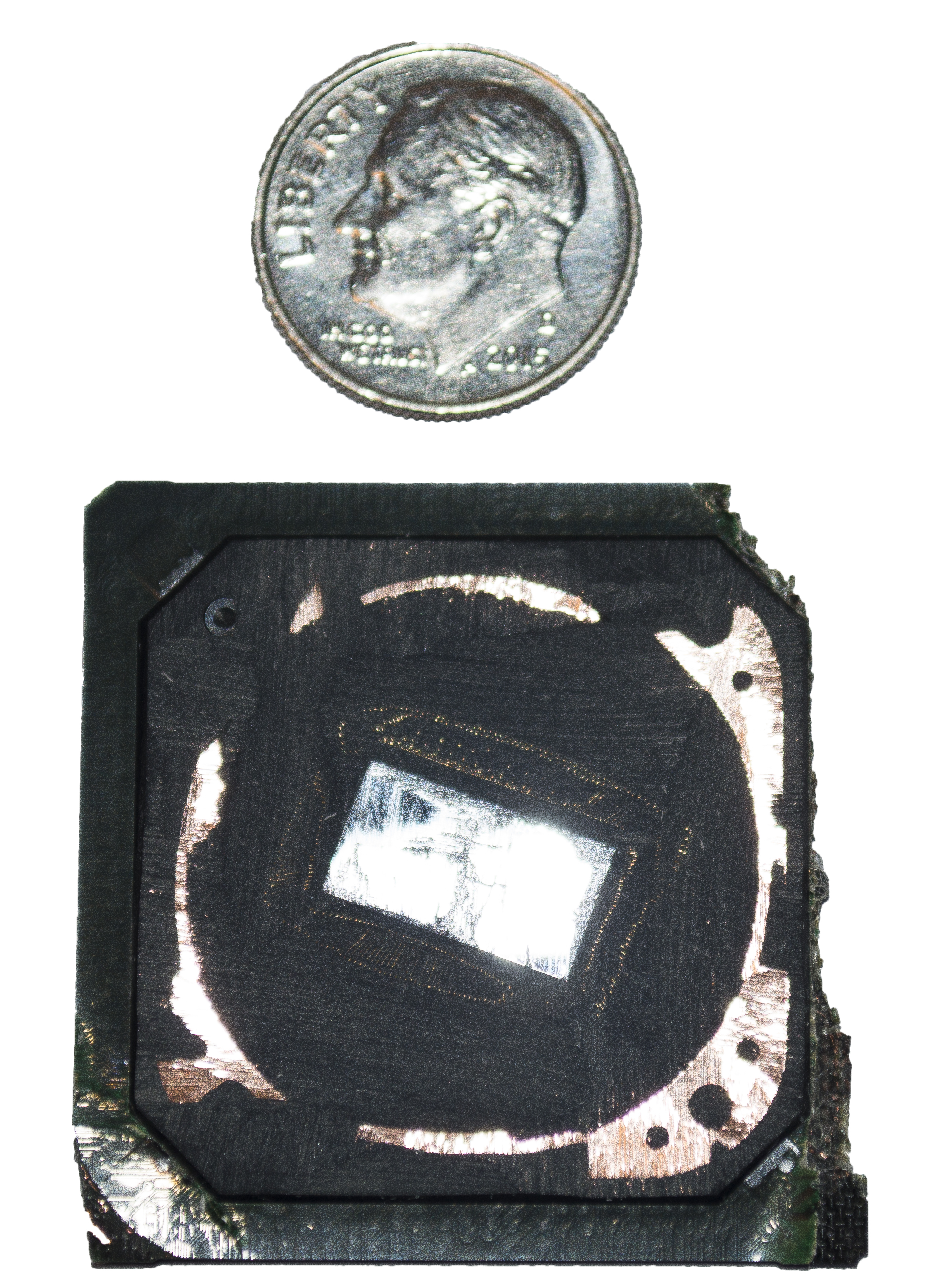 Scph-90001 asic uncovered